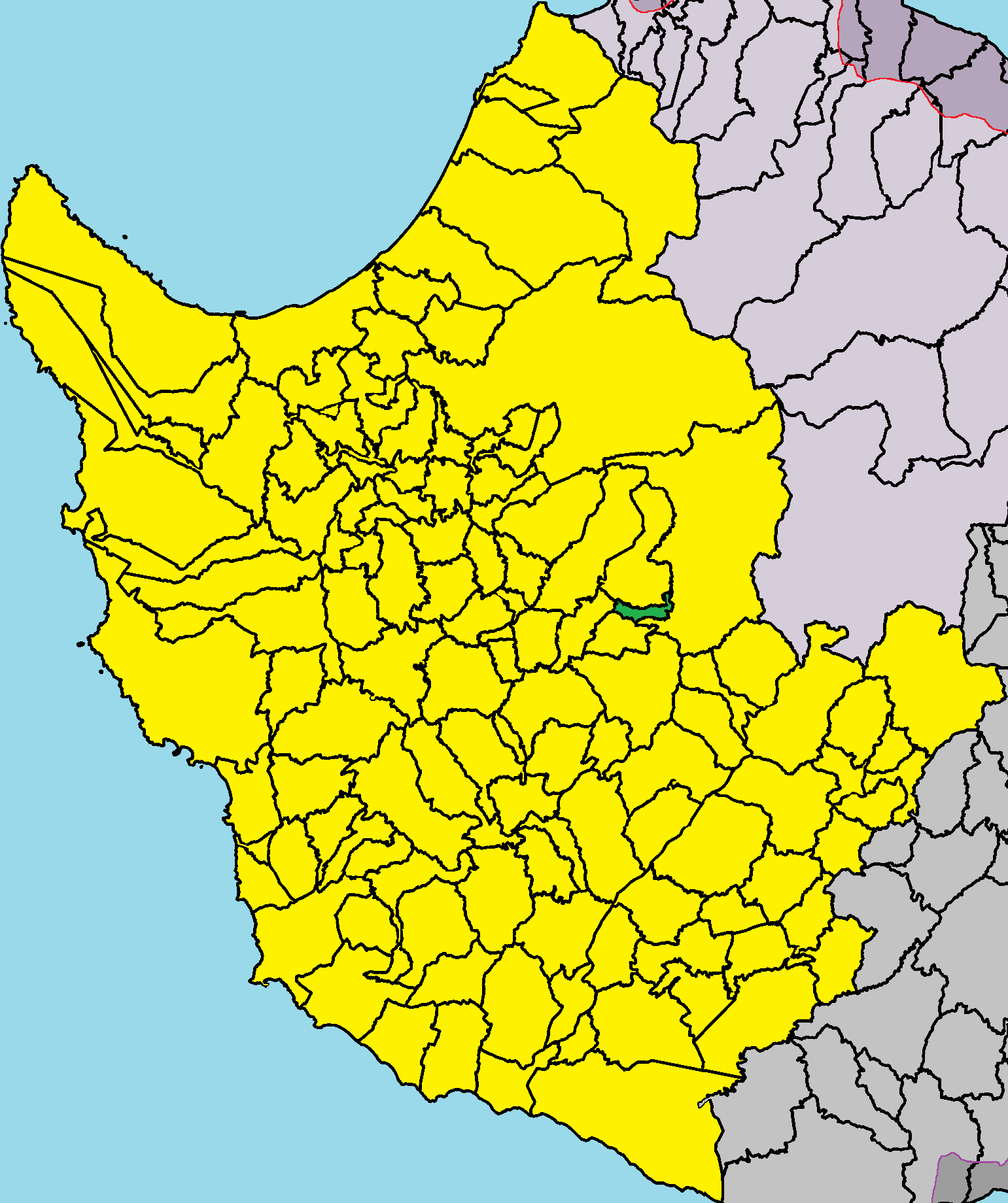 Mamountali in Paphos District.